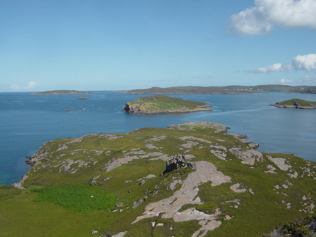 Eilean a'Ch?r from the high point of Tanera Beg, 4 km from Polbain, Highland, Great Britain. Eilean a'Ch?r sits among a number of low skerries in the westerly swell just north of Tanera Beg - the Summer Isles make an for excellent sea kayak trip tour with seals, sea birds and splendid scenery all around. Eilean Mullagrach and Isle Ristol lie in the background of this view.